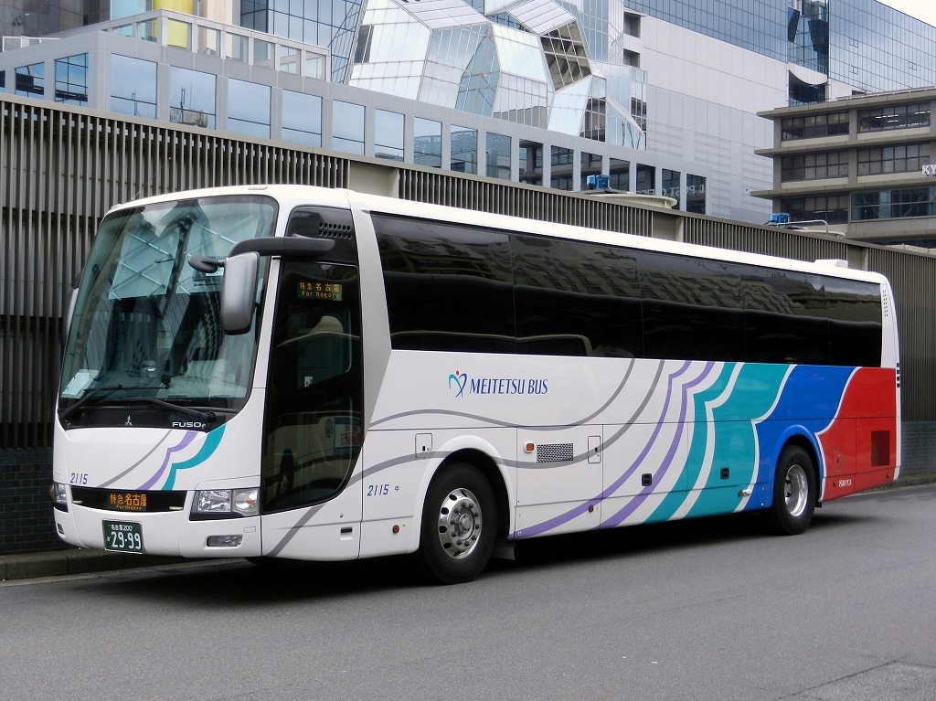 Meitetsu bus Mitsubishi Fuso Aero Ace (LKG-MS96VP)Meishin highwaybus "Nagoya-Kyoto"